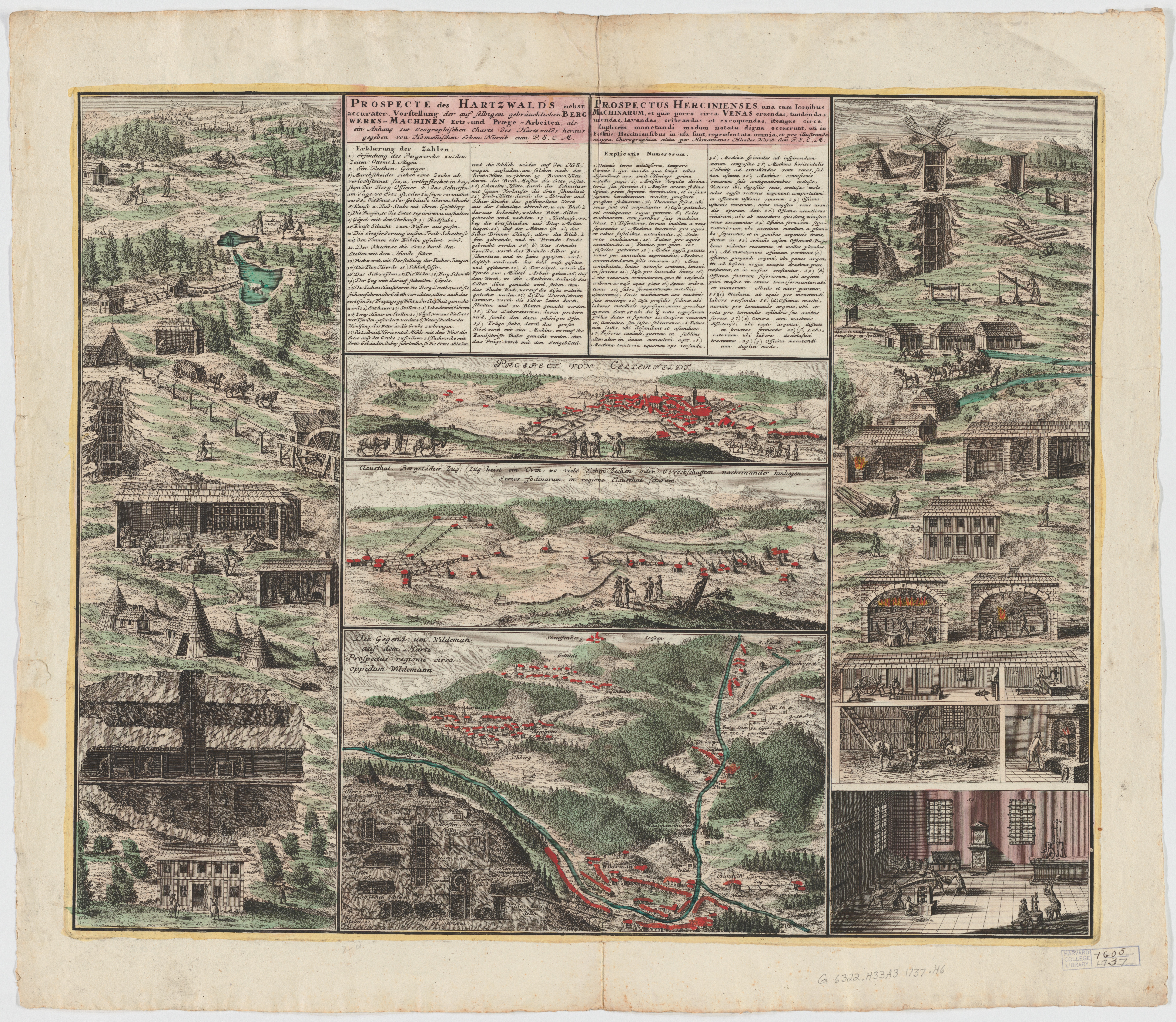 6 views on 1 sheet : hand col. ; 48 x 58 cm. In German and Latin. Includes mineral industries of region.